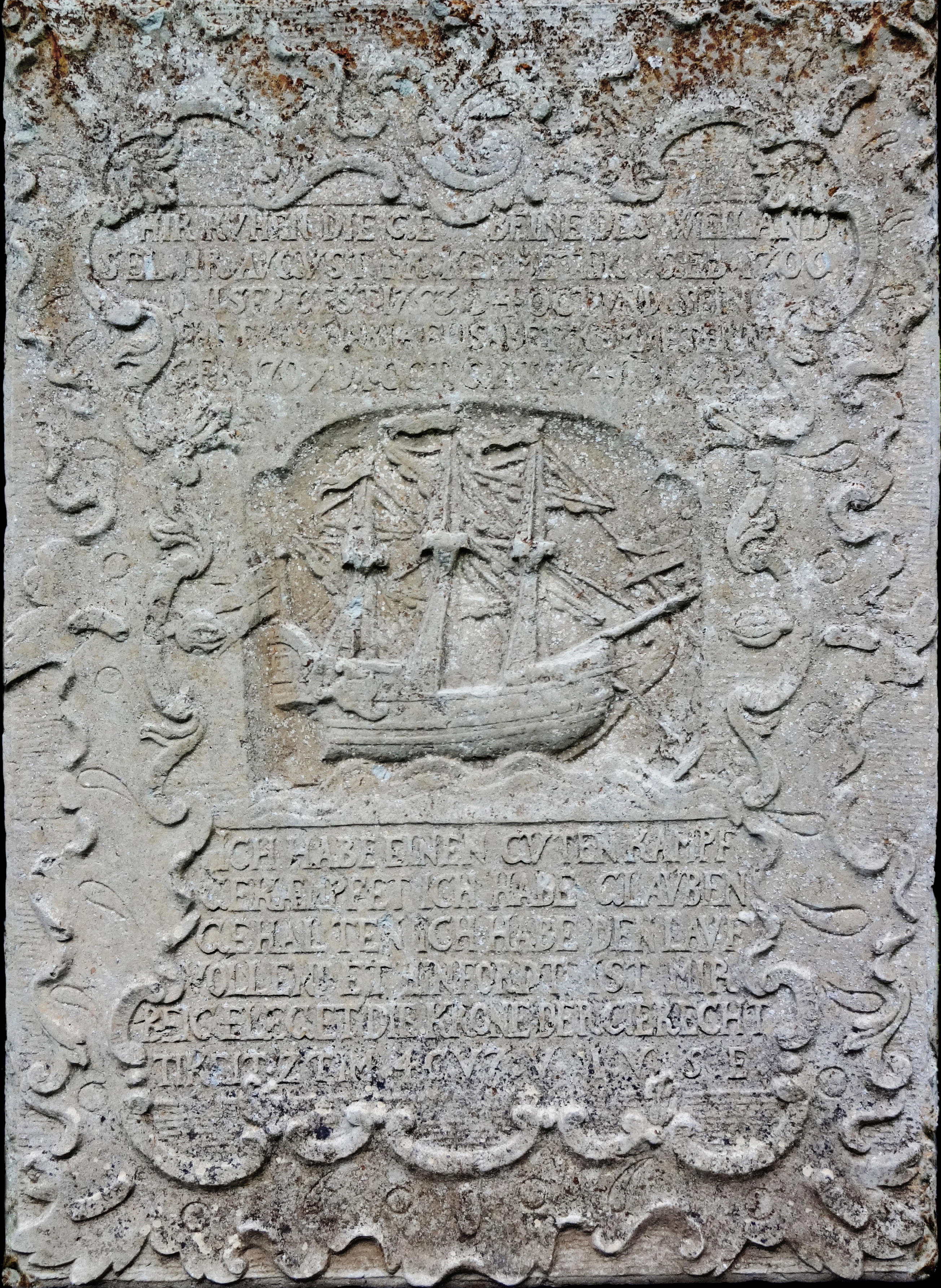 Gravestone of the skipper August Friedrich Kemmeter (1700-1753) in the cemetery of Schifferkirche Arnis, 18th Century. Gray limestone sandstone (height 217 cm) with the relief of a frigate.